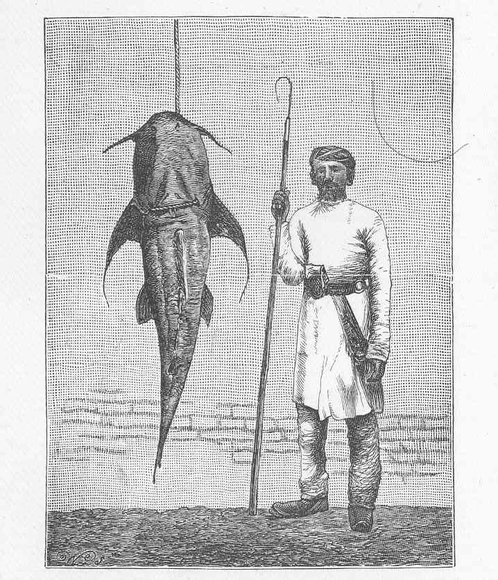 Bagarius Yarrellii and Man Subject: Bagarius, Catfishes, Fishers Tag: Fish